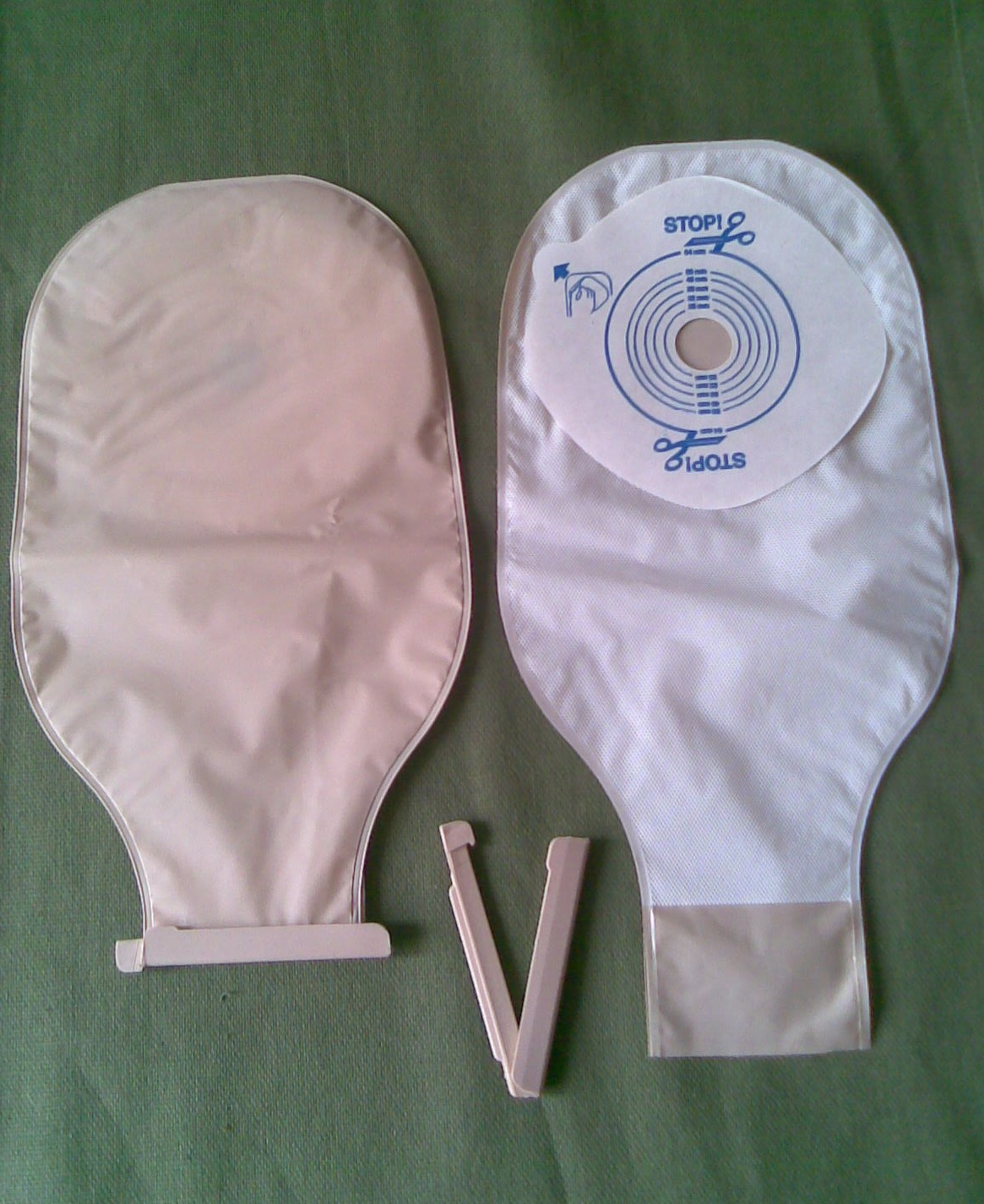 One-piece ileostomy bags (pouches) Stomadress.